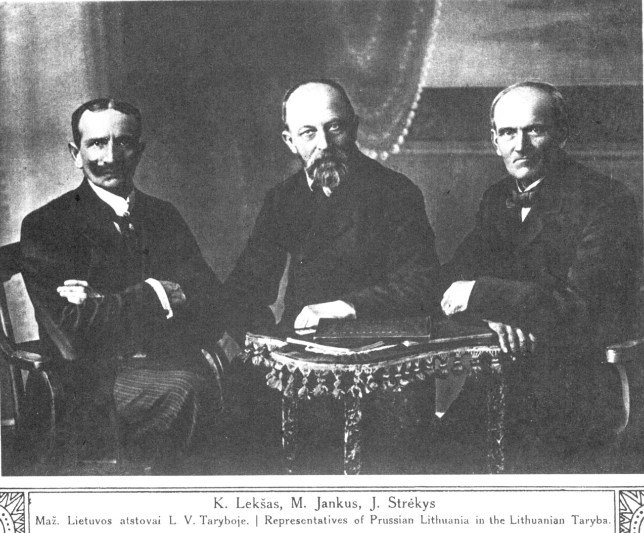 Members Lithuanian Taryba from Lithuania Minor